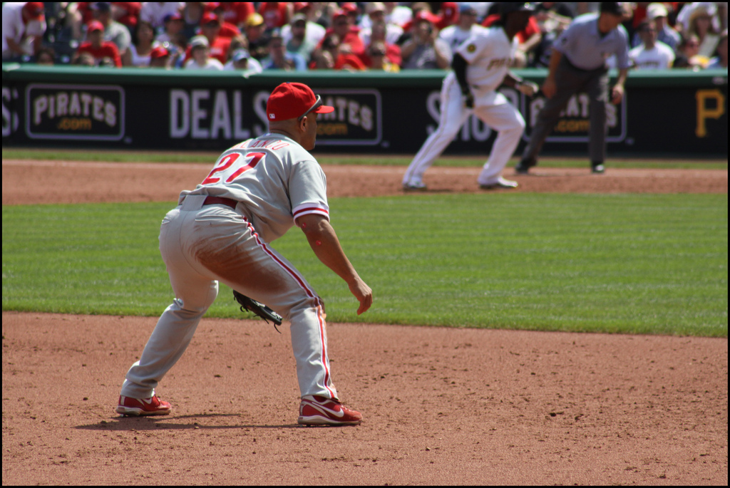 Plácido Polanco fielding 3rd base during a 2011 game vs. the Pittsburgh Pirates.